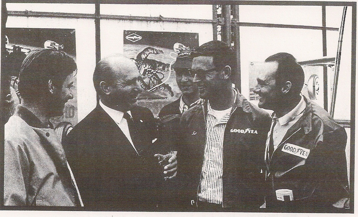 Nürburgring 1967 with Oreste Berta, Juan Fangio, Fred Gamble and Walter Koenig